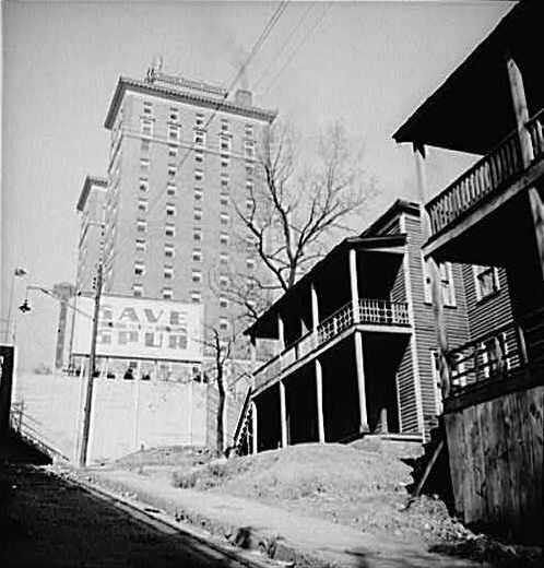 Circa-1941 photograph of the Andrew Johnson Hotel in Knoxville, Tennessee, USA. This view is from the south, with the shadow on the lower left apparently cast by the Gay Street Bridge.